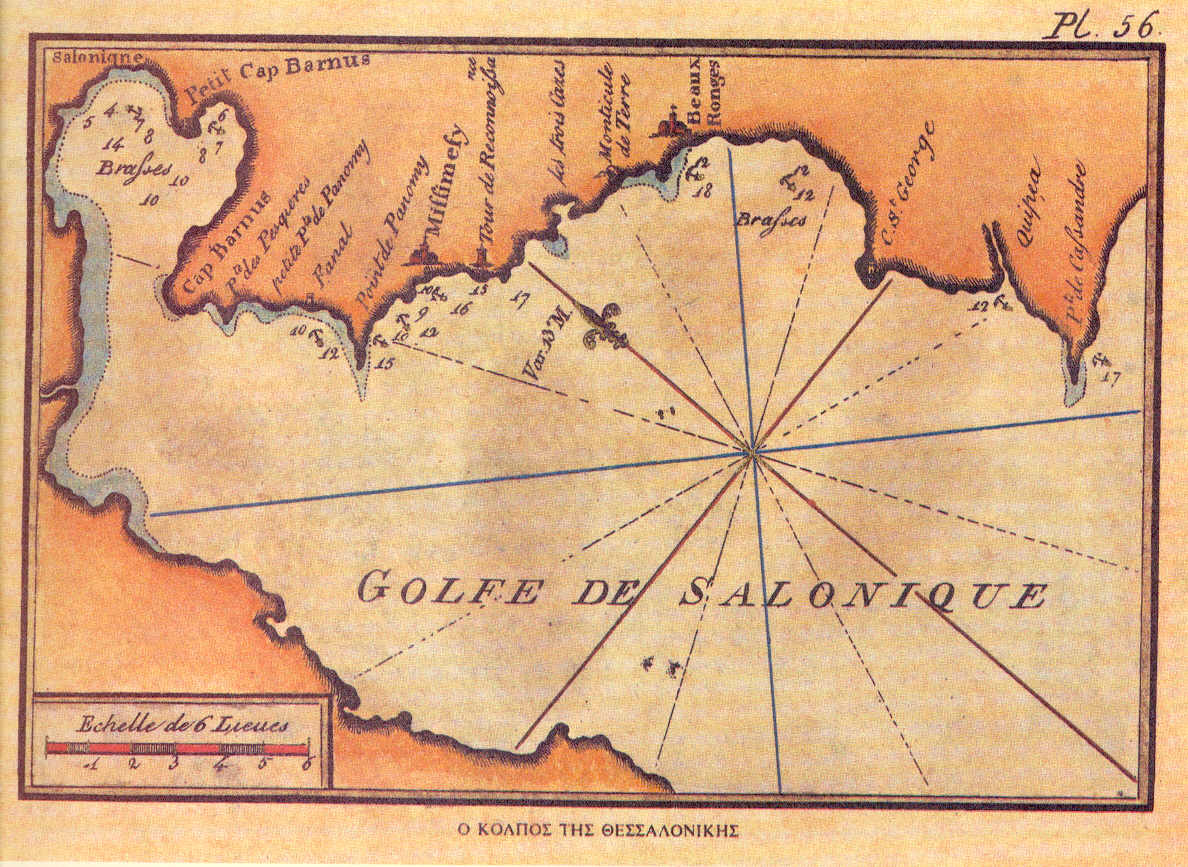 Old French chart of Thermaikos Gulf, Greece.